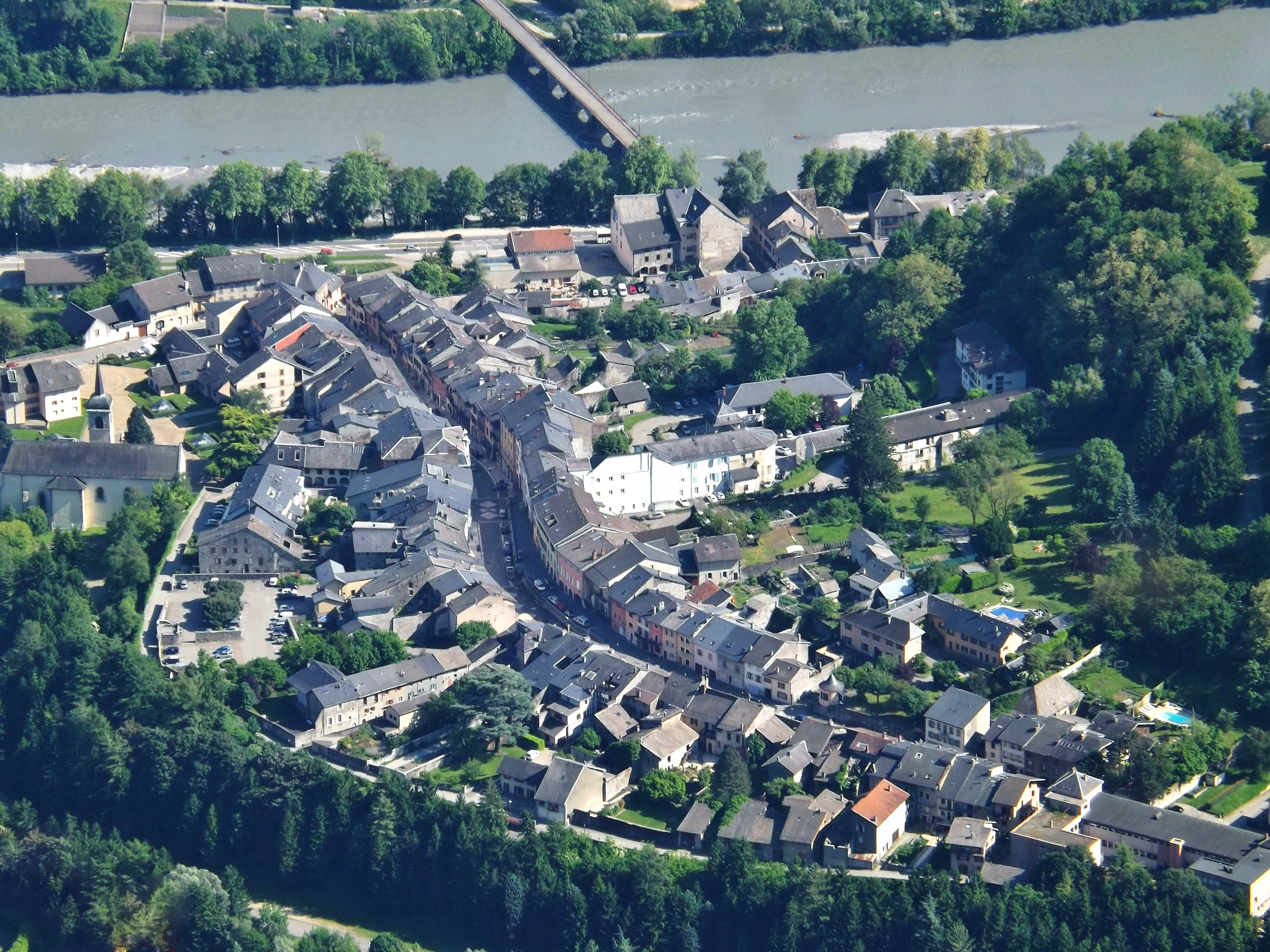 Aerian sight, from the Roche du Guet mount in the Bauges mountain range, of the old neighborhood of Montmélian along the river Isère, near Chambéry in Savoie.